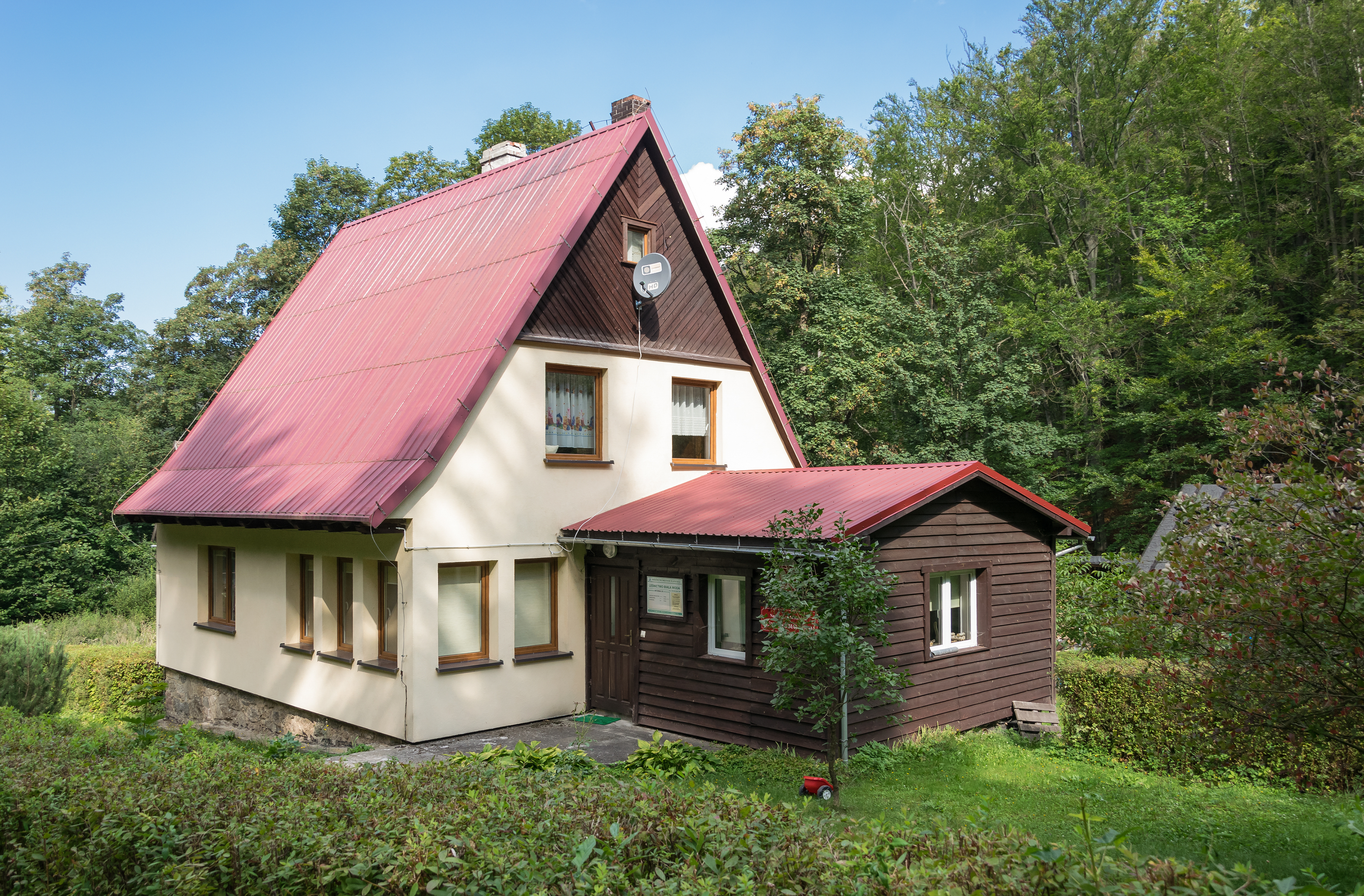 Biała Woda forester's lodge in Szklary